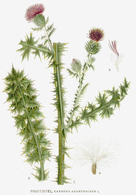 Original Description Piggtistel, Carduus acanthoides L.